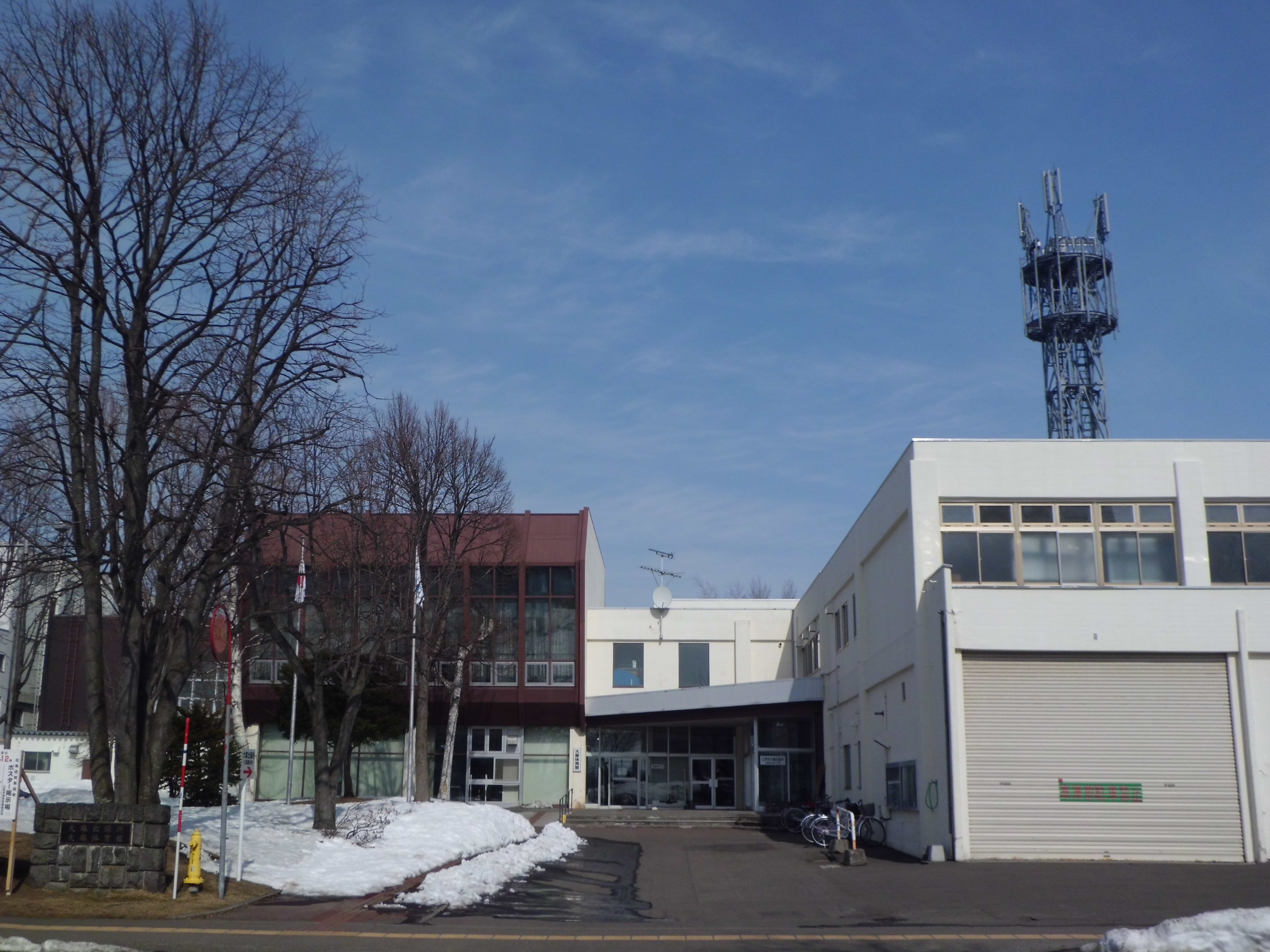 Ebetsu City Hall Oasa Branch